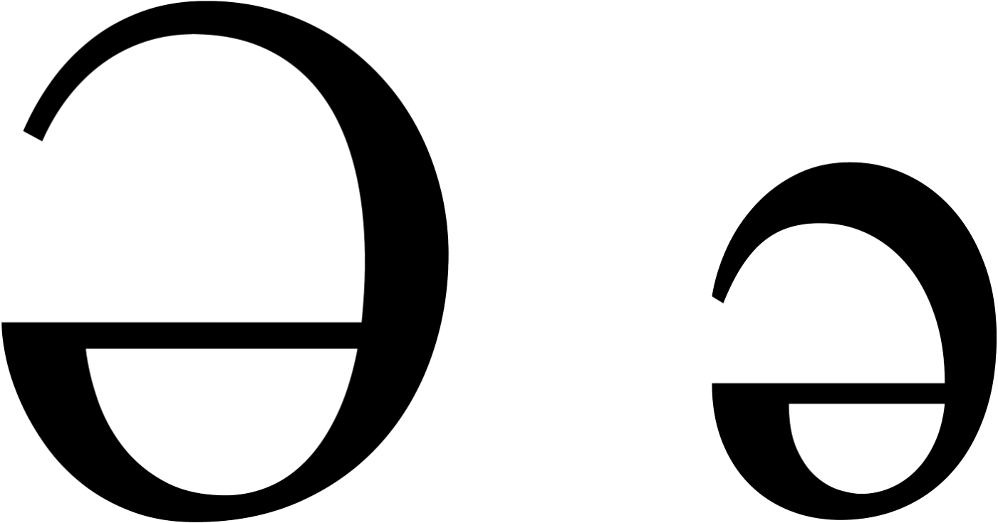 Doulos SIL glyphs of Majuscule and minuscule Ə